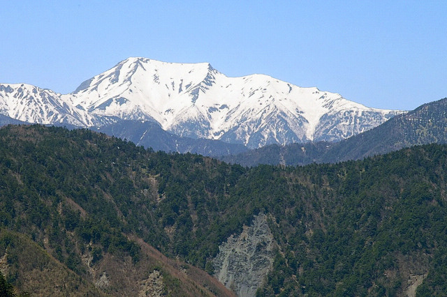 Mount Hijiri seen from the southeast. Taken from Mount Yanbushi.